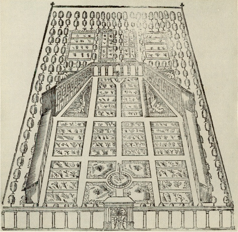 The old botanical garden of Uppsala University (now known as the Linnean Garden), depicted by Olof Rudbeck the elder in his work Atland eller Manheim dedan Japhetz afkomne, de förnemste keyserlige och kungelige slechter ut till hela werlden, henne att styra, utgångne äro, ..., also with the Latin title Atlantica sive Manheim vera Japheti posterorum sedes ac patria, ..., printed in Uppsala 1675.